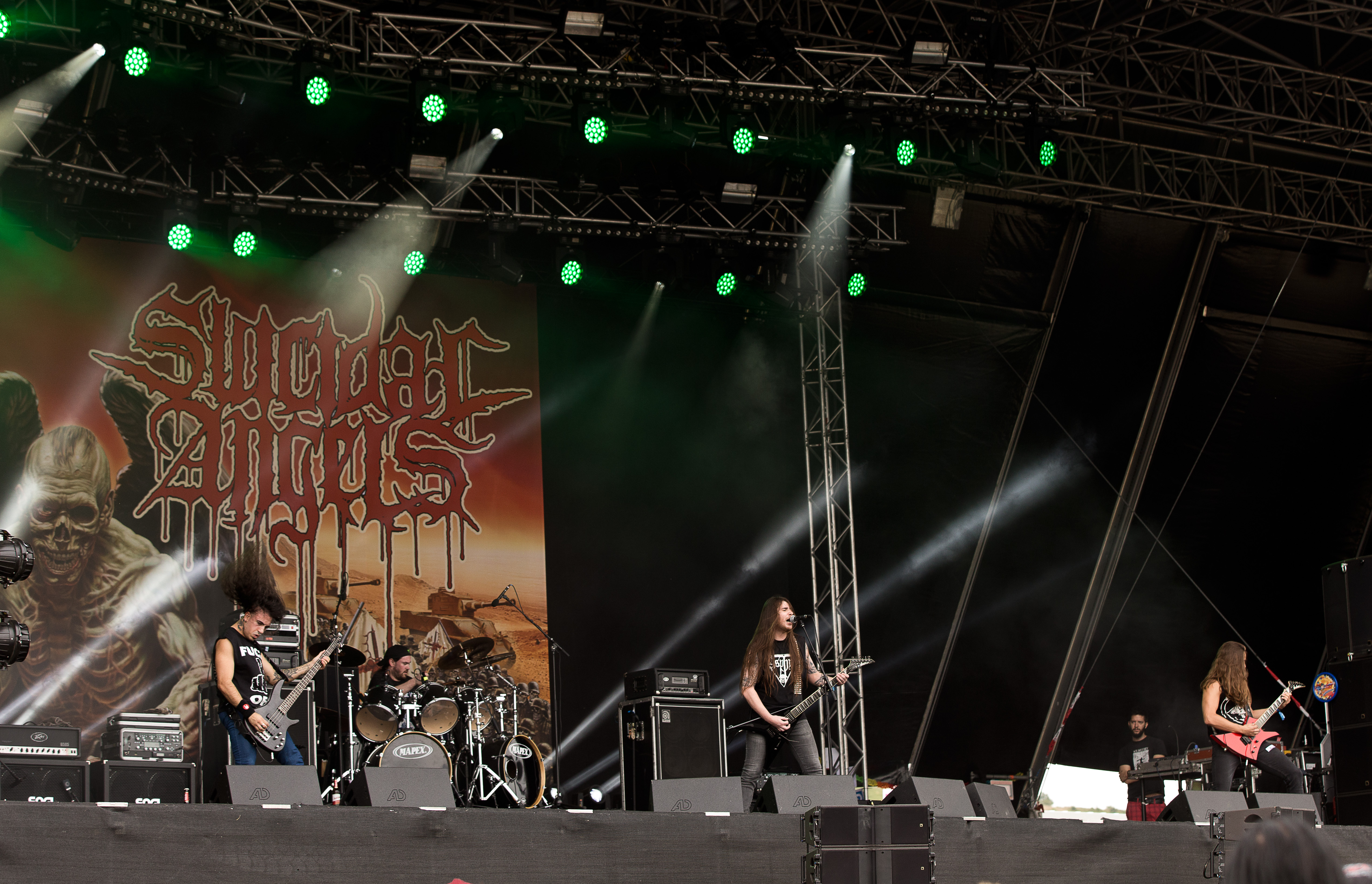 The Greek thrash metal band Suicidal Angels at the Rockharz Open Air 2016 in Ballenstedt/Germany.